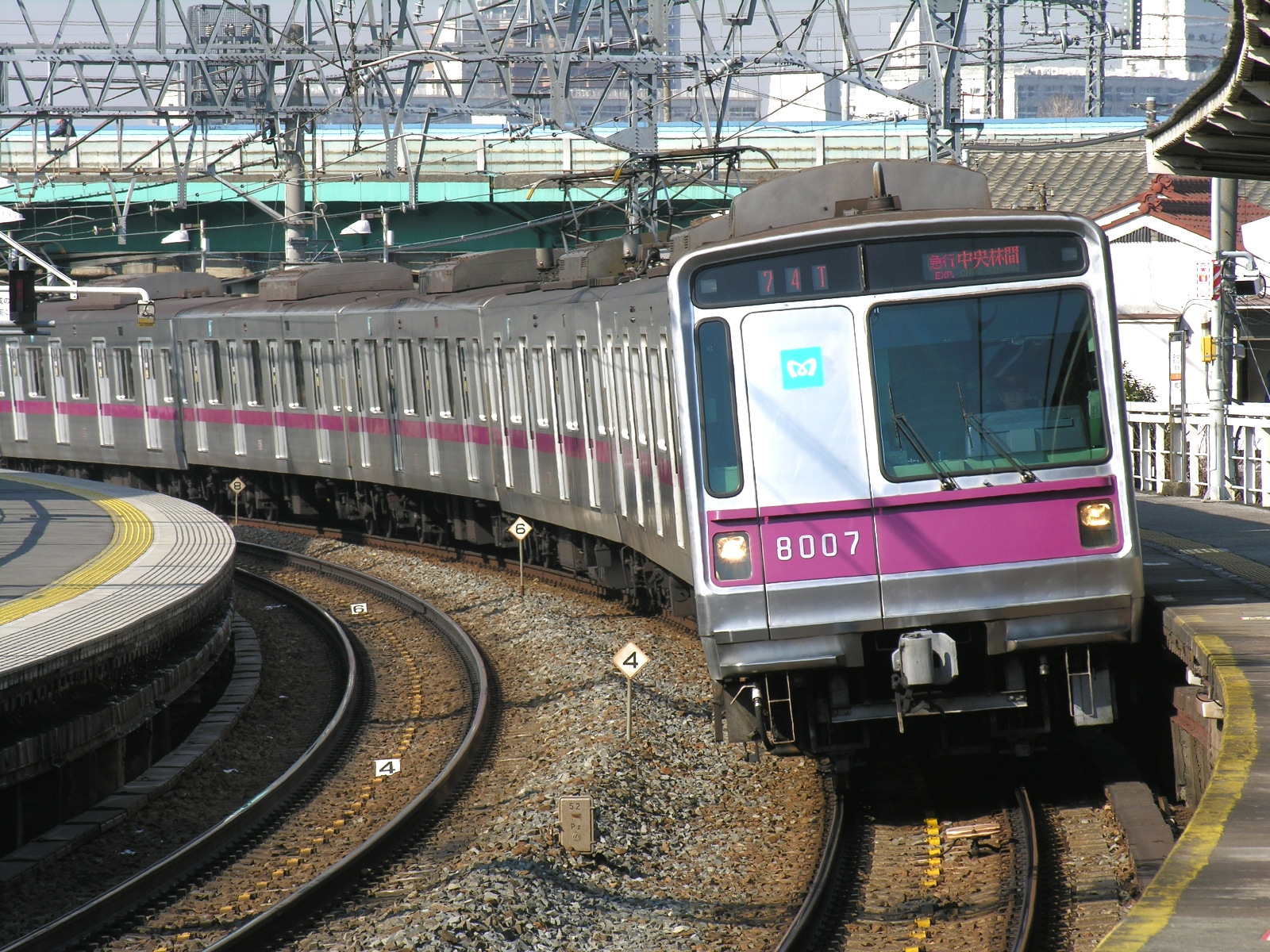 The train of Tokyo Metro Series8000 passing througu Horikiri station on the Tobu Isesaki Line